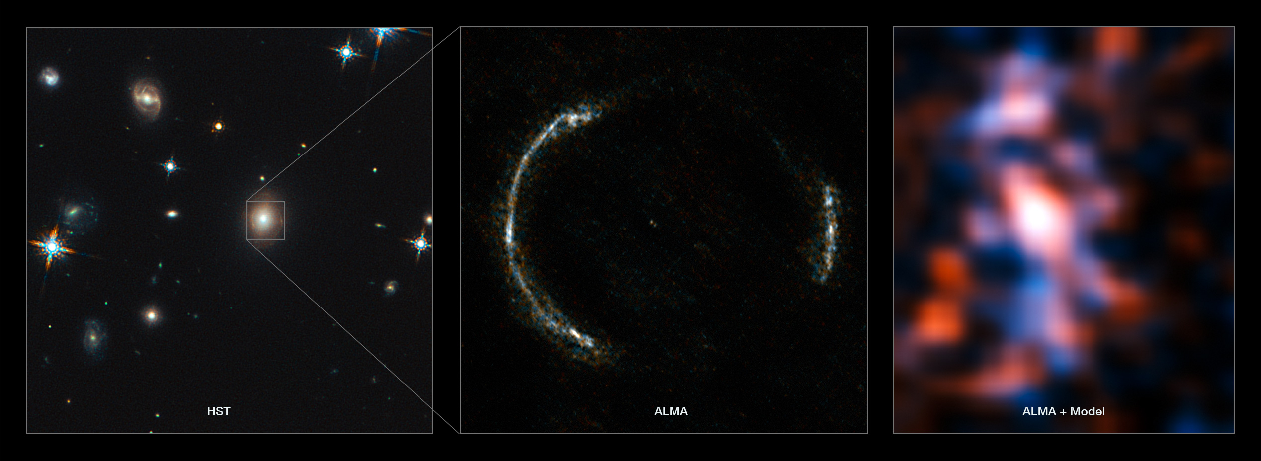 ALMA’s Long Baseline Campaign has produced a spectacularly detailed image of a distant galaxy being gravitationally lensed, revealing star-forming regions — something that has never been seen before at this level of detail in a galaxy so remote. The new observations are far more detailed than any previously made of such a distant galaxy, including those made using the NASA/ESA Hubble Space Telescope, and reveal clumps of star formation in the galaxy equivalent to giant versions of the Orion Nebula. The left panel shows the foreground lensing galaxy (observed with Hubble), and the gravitationally lensed galaxy SDP.81, which forms an almost perfect Einstein Ring, is hardly visible. The middle image shows the sharp ALMA image of the Einstein ring, with the foreground lensing galaxy being invisible to ALMA. The resulting reconstructed image of the distant galaxy (right) using sophisticated models of the magnifying gravitational lens, reveal fine structures within the ring that have never been seen before: Several dust clouds within the galaxy, which are thought to be giant cold molecular clouds, the birthplaces of stars and planets.